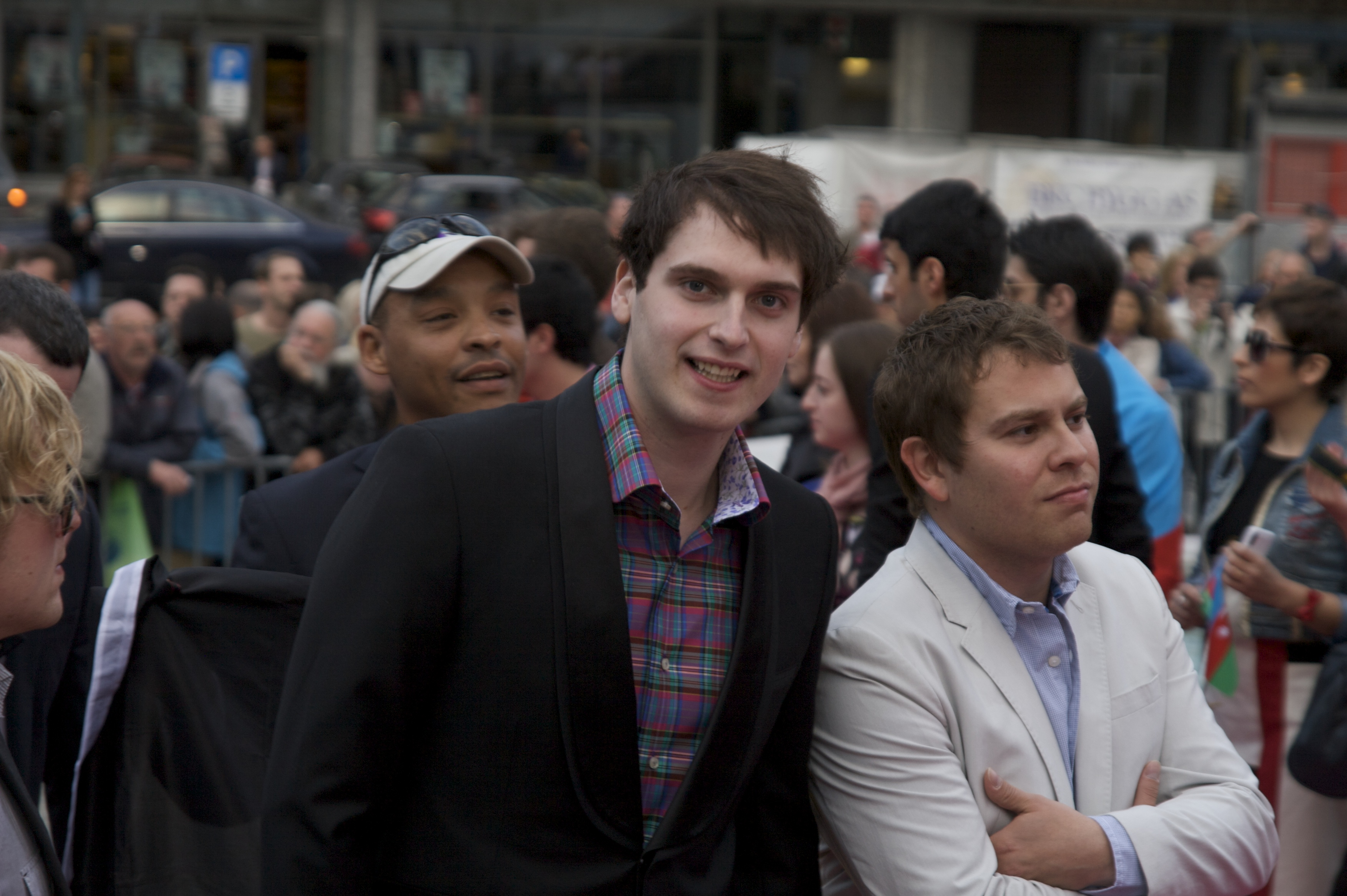 Tom Dice in Oslo at the Eurovision 2010 Welcoming Reception